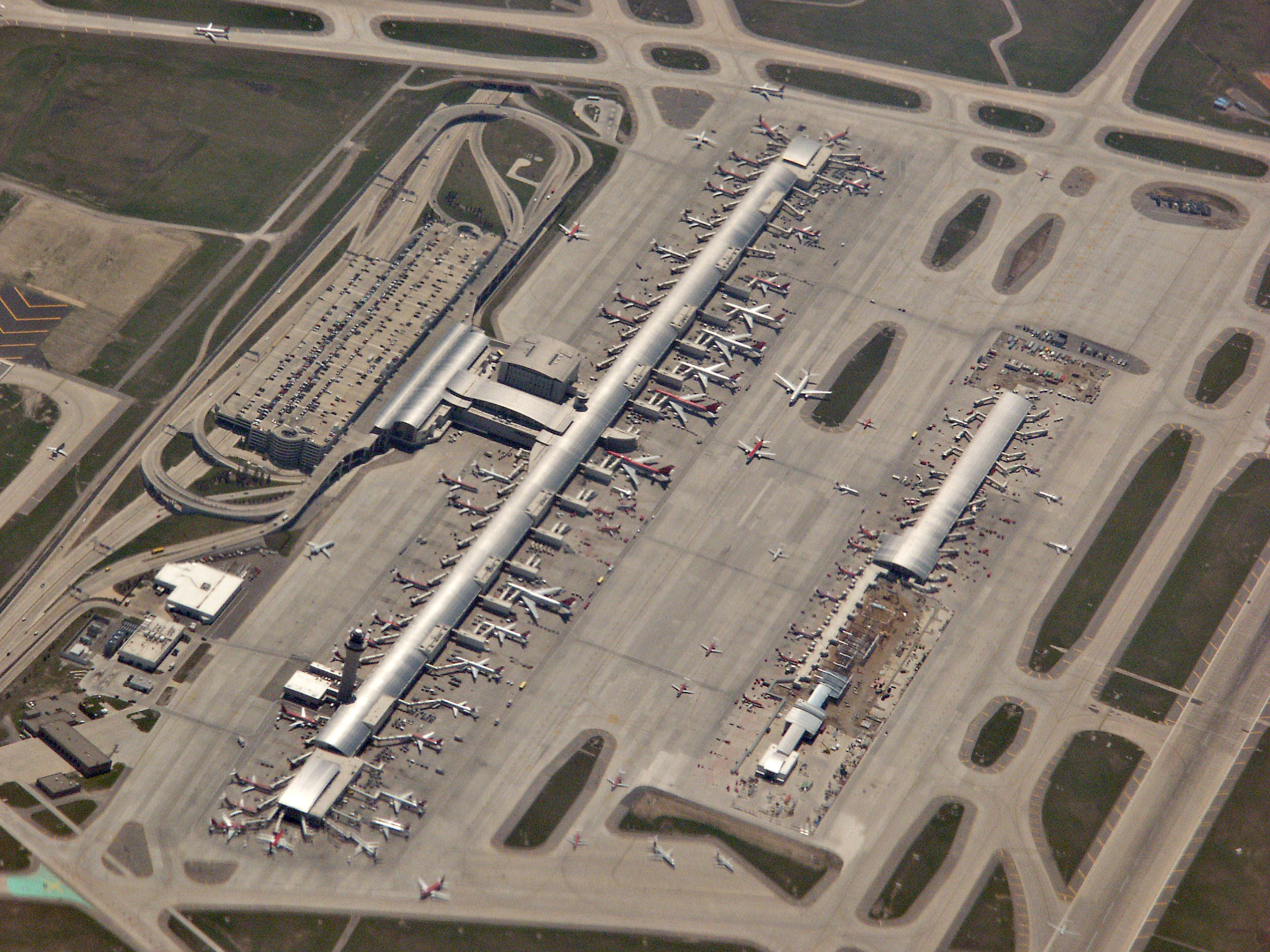 Aerial photograph of Edward H. McNamara Terminal, Detroit Metropolitan Wayne County Airport (DTW), Michigan, USA.